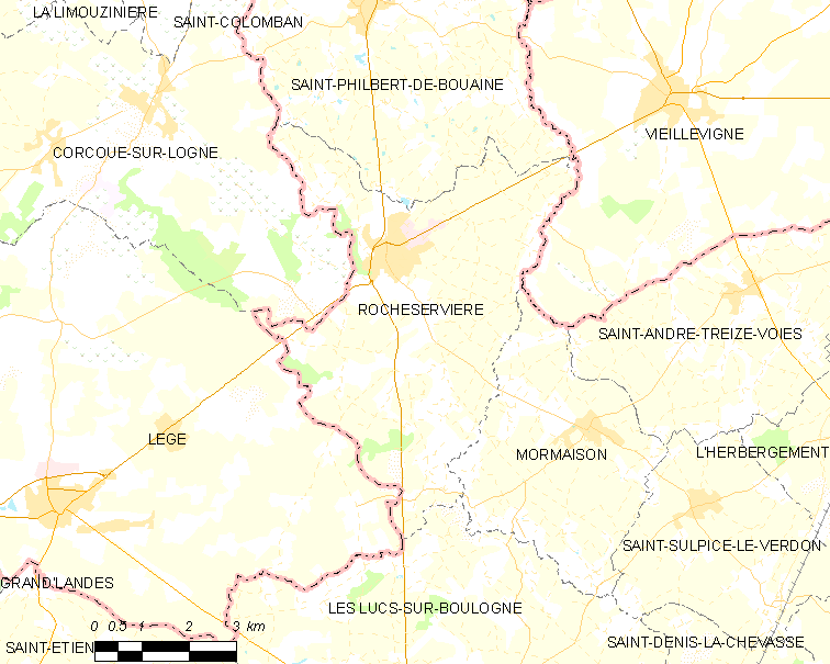 Map of French municipality Rocheservière